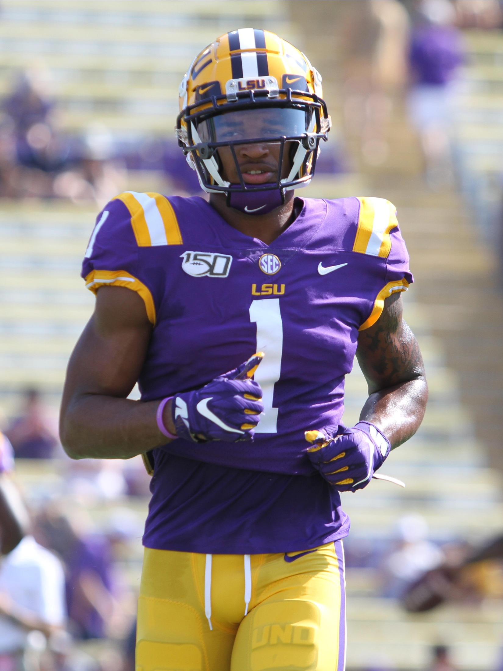 Ja’Marr Chase, #1, Wide Receiver, LSU Tigers Football vs Utah State Aggies, Tiger Stadium, October 5, 2019, Baton Rouge, Louisiana, Tammy Anthony Baker, Photographer @tabinla @tmabaker @Real10jayy__